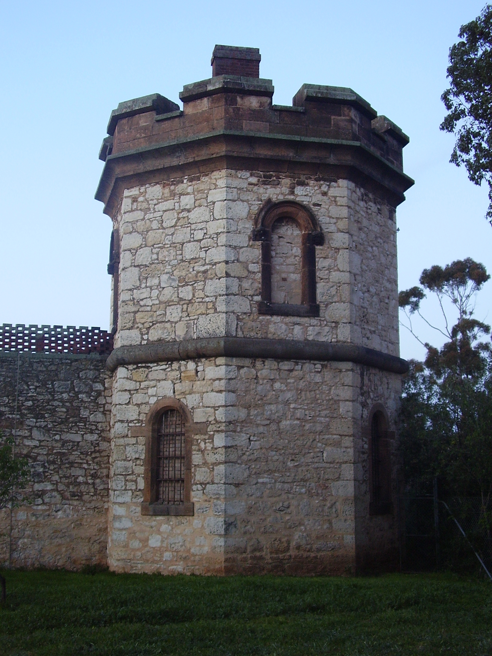 One of the towers on the Adelaide Gaol. Adelaide, South Australia